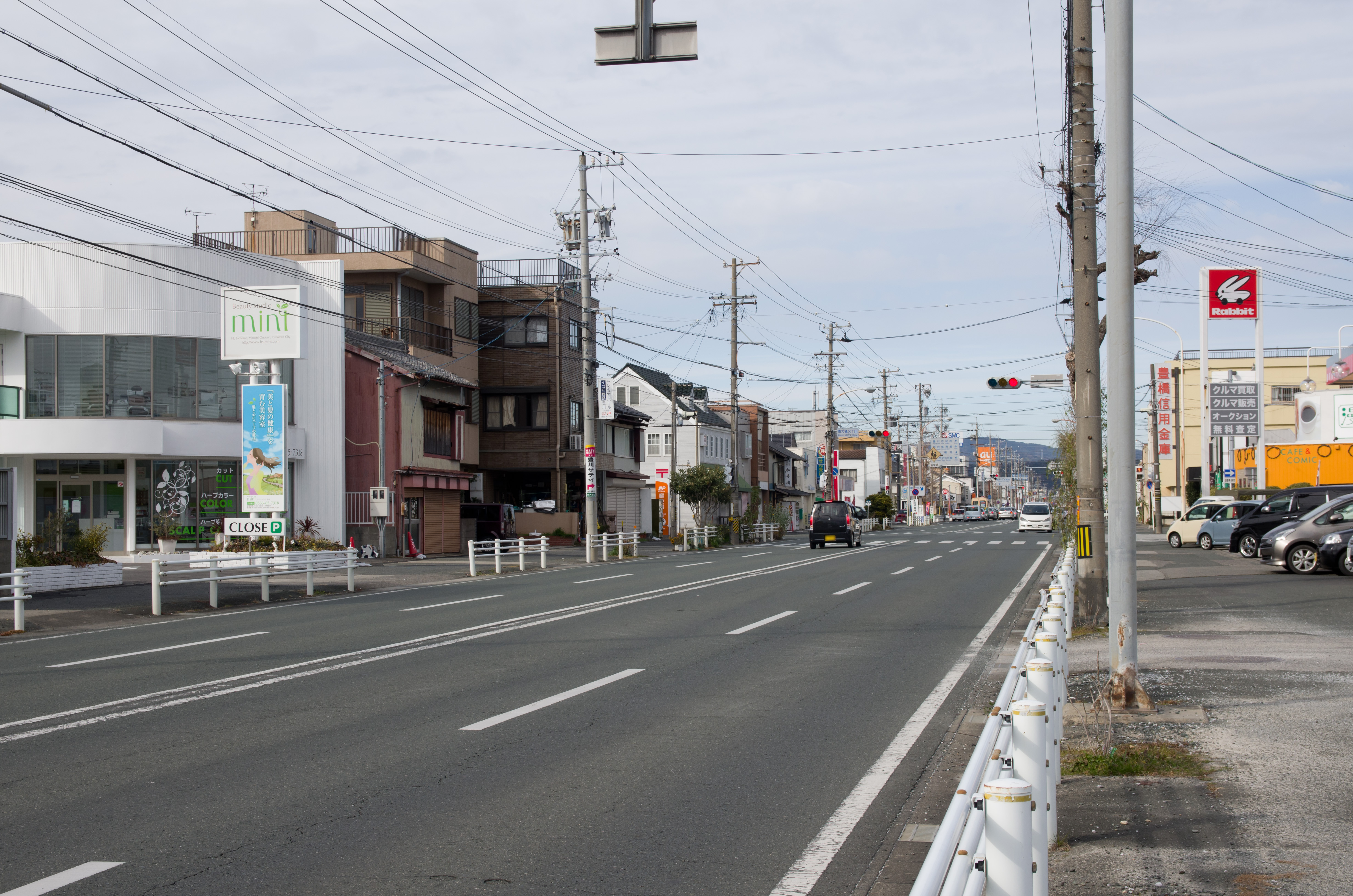 The Minami-odori Avenue (The Aichi Prefectural Road Route 400) in Minami-odori 3-chome, Toyokawa City, view towards the north